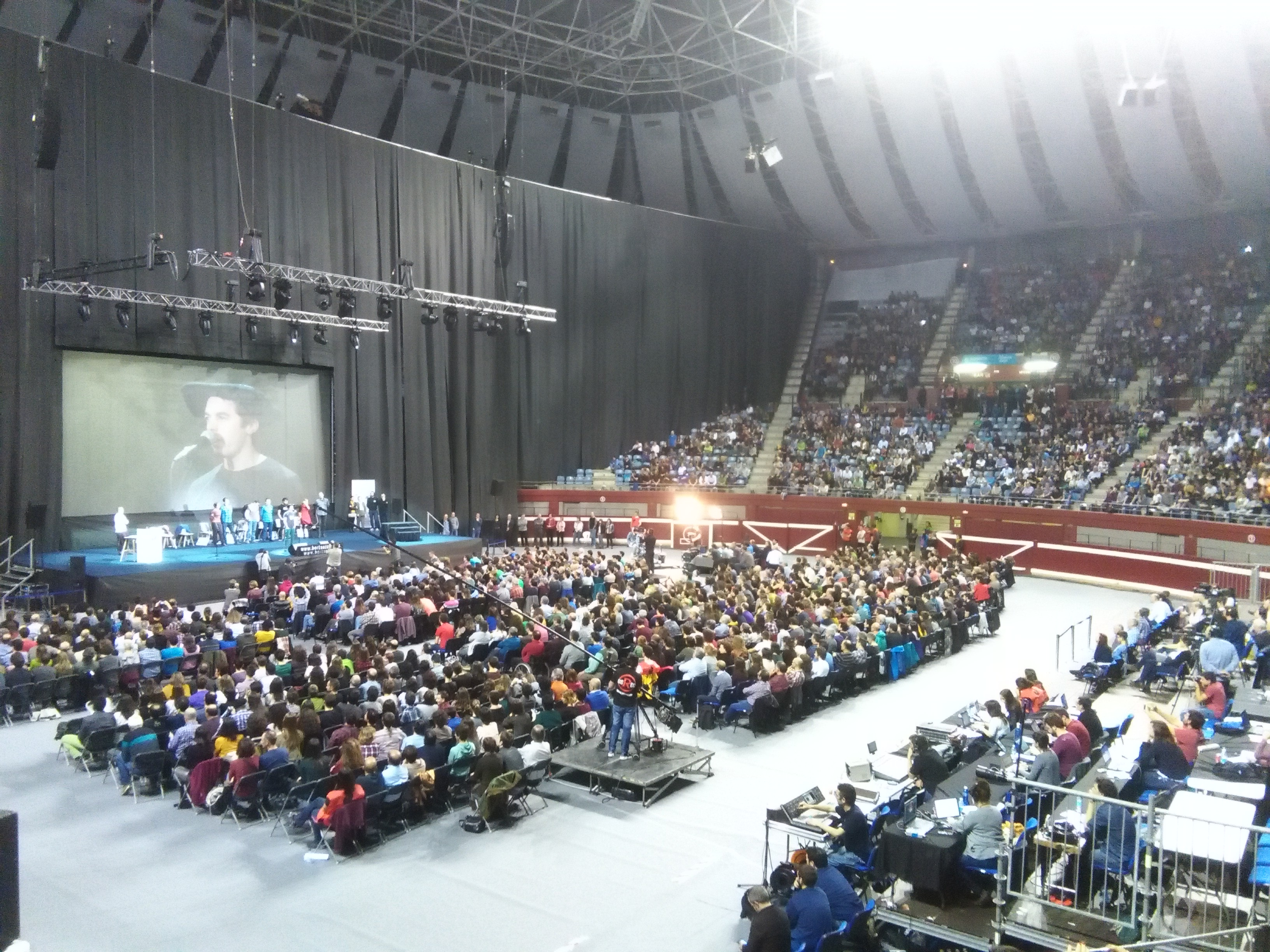 Bertso Championship of Gipuzkoa 2015